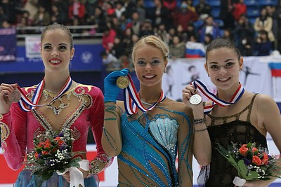 The ladies podium at the 2013 Cup of China. From left: Carolina Kostner (3rd), Anna Pogorilaya (1st), Adelina Sotnikova (2nd).